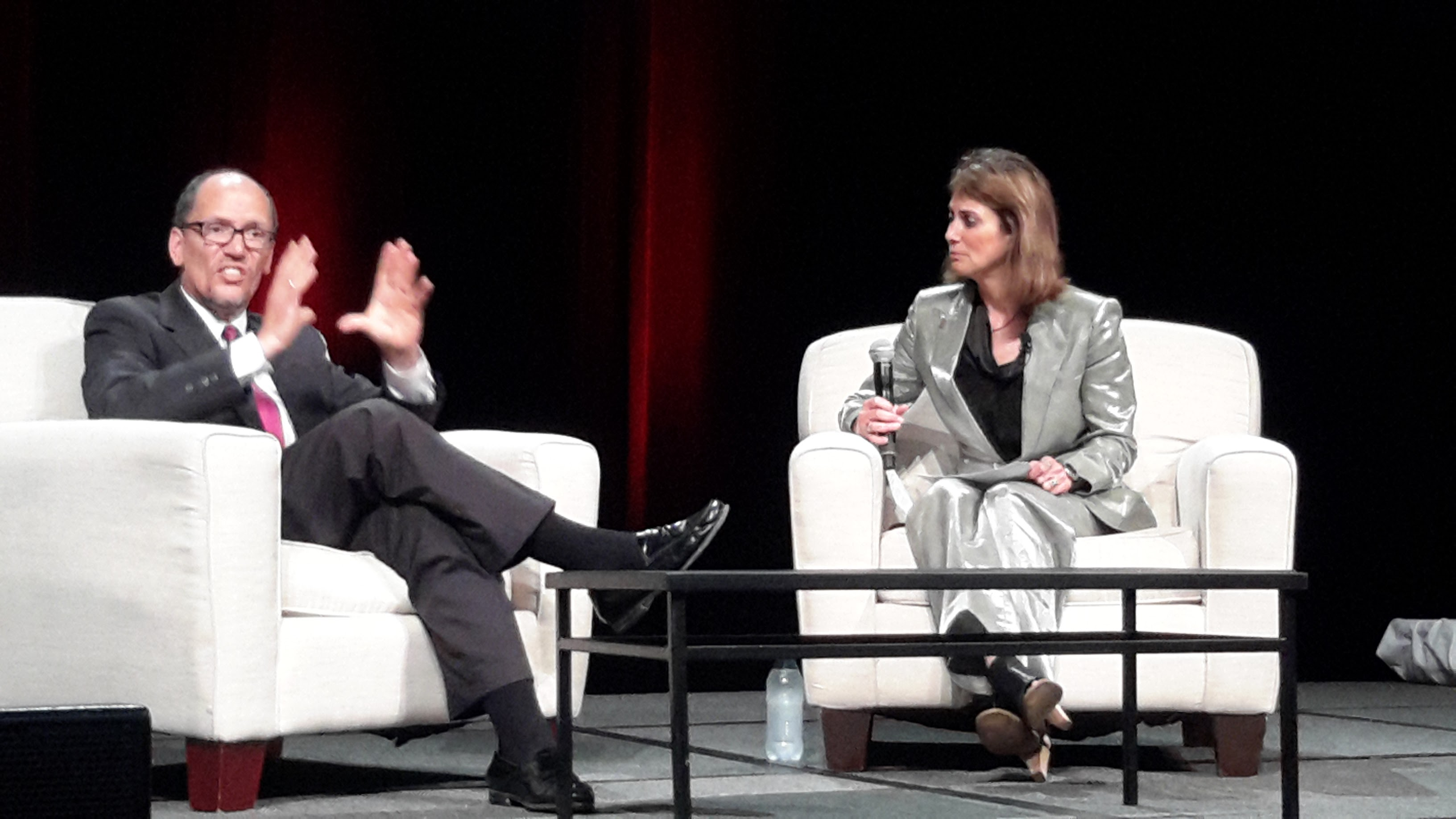 Former United States Secretary of Labor Perez at AARP's Life@50+ event in 2015.